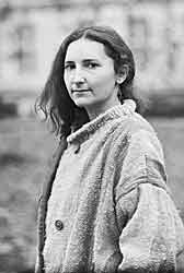 Gabriele Stötzer, born Kachold, on November 23, 1987 in Berlin